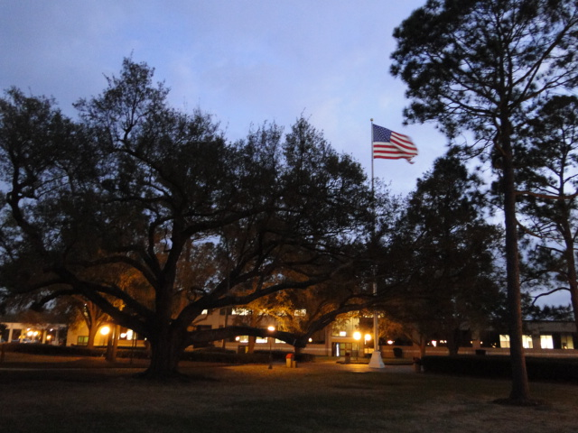 Lucas Building as seen from Lamar's Quad.